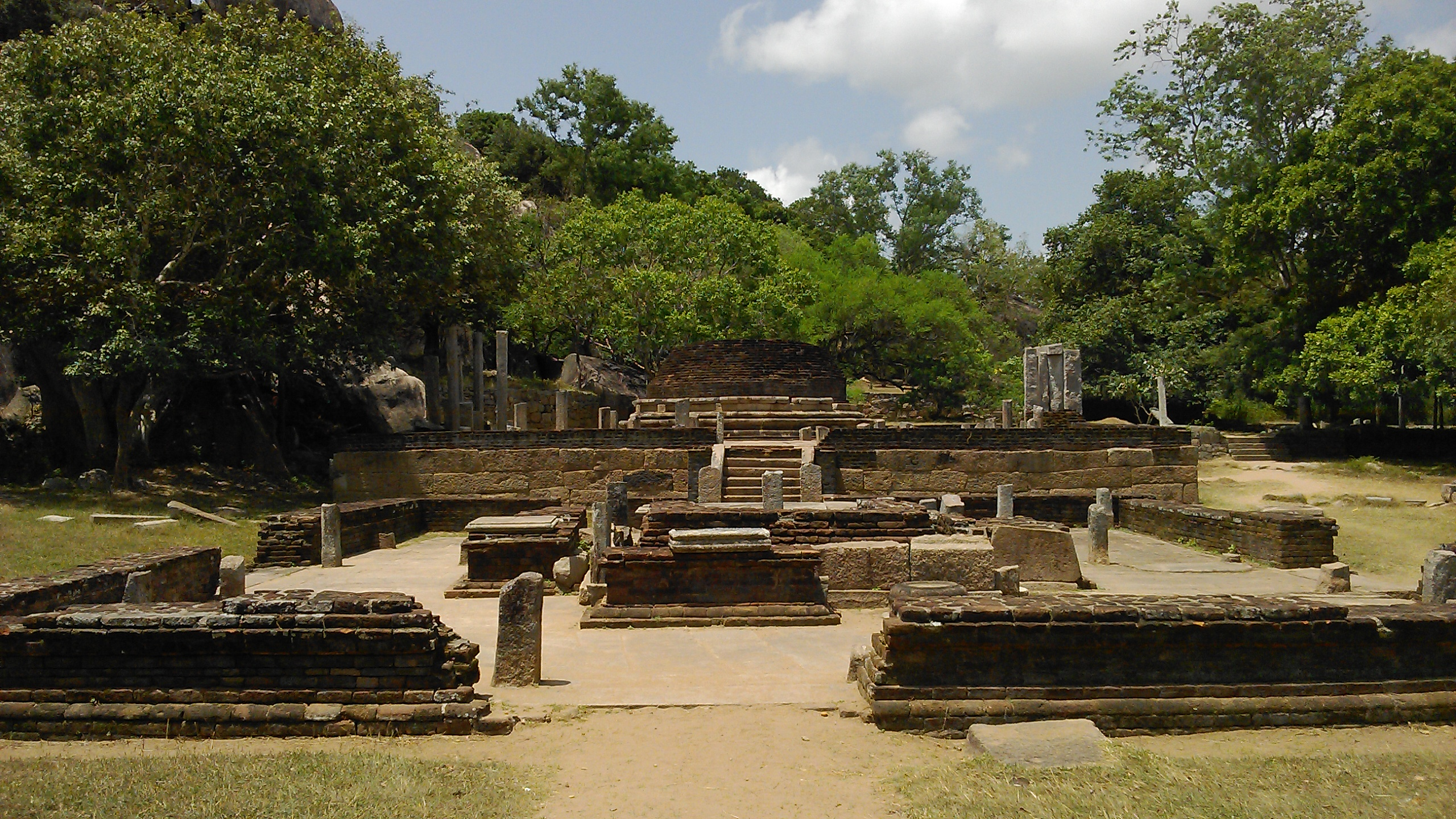 Vihara complex of Hatthikuchchi